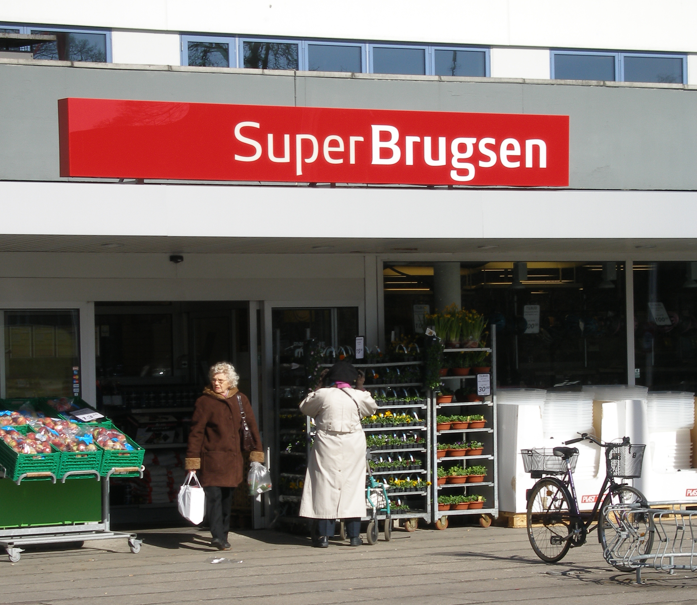 Superbrugsen supermarket in Glostrup, Denmark